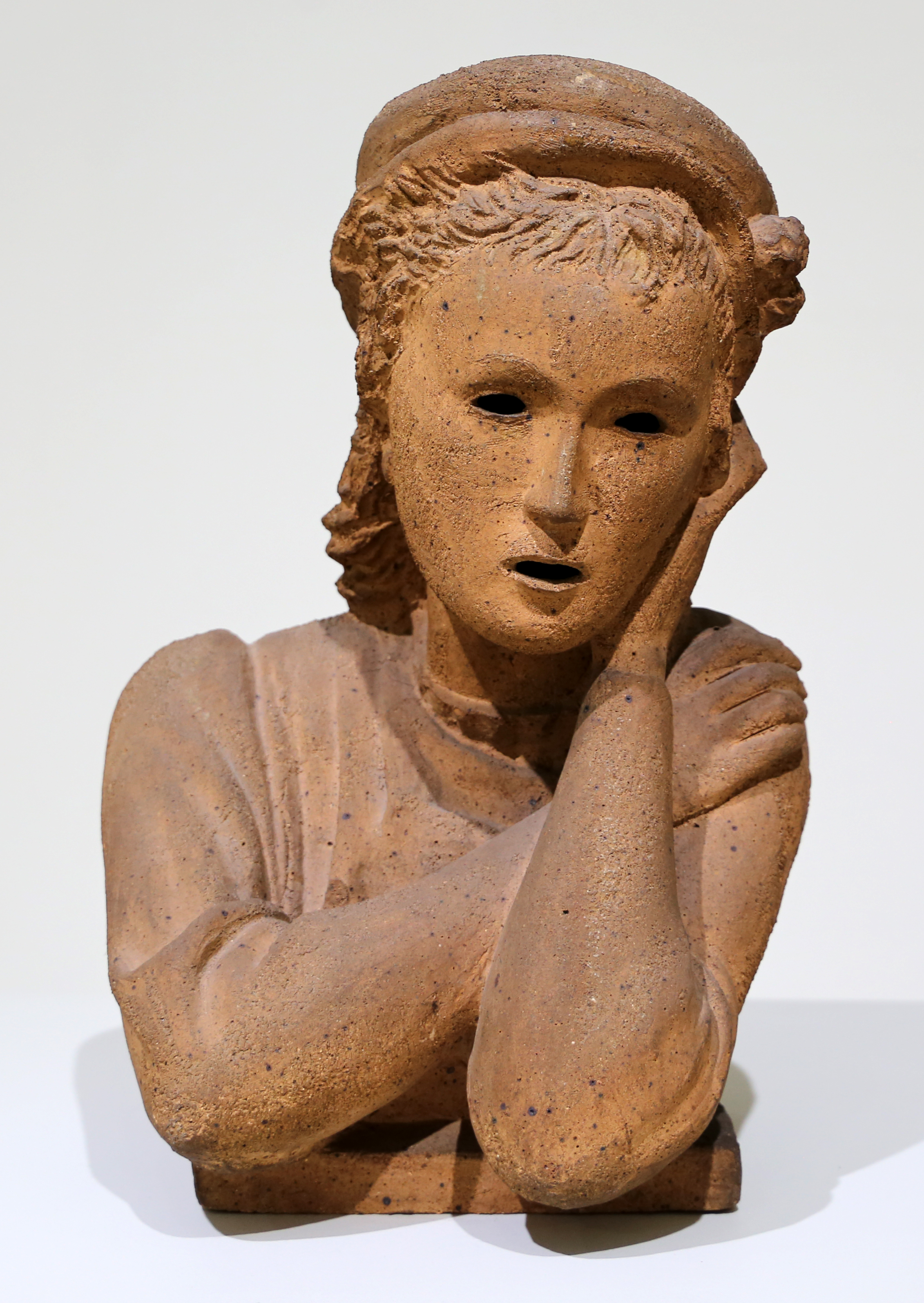 Museo della ceramica di Savona